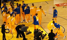 Players from the 2011-12 Golden State Warriors gathered together during the team's starting lineup ceremony prior to the tip-off of their exhibition opener at Oracle Arena against the Sacramento Kings. This photograph was taken with an Olympus E-510 DSLR camera and edited (crop) using ArcSoft PhotoStudio 5.5